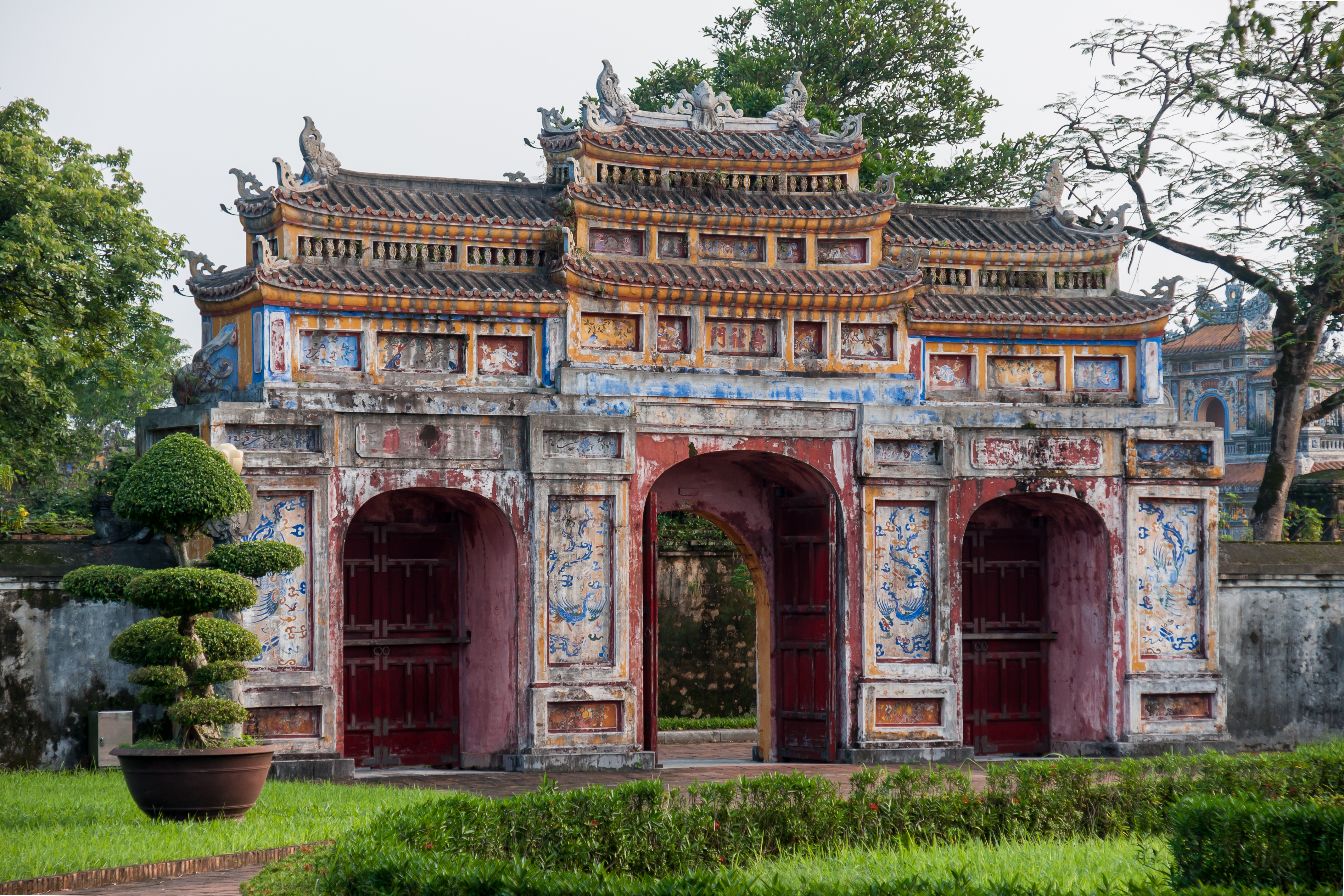 Hue, Vietnam: Cổng Trai cung within the Citadel of Huế.